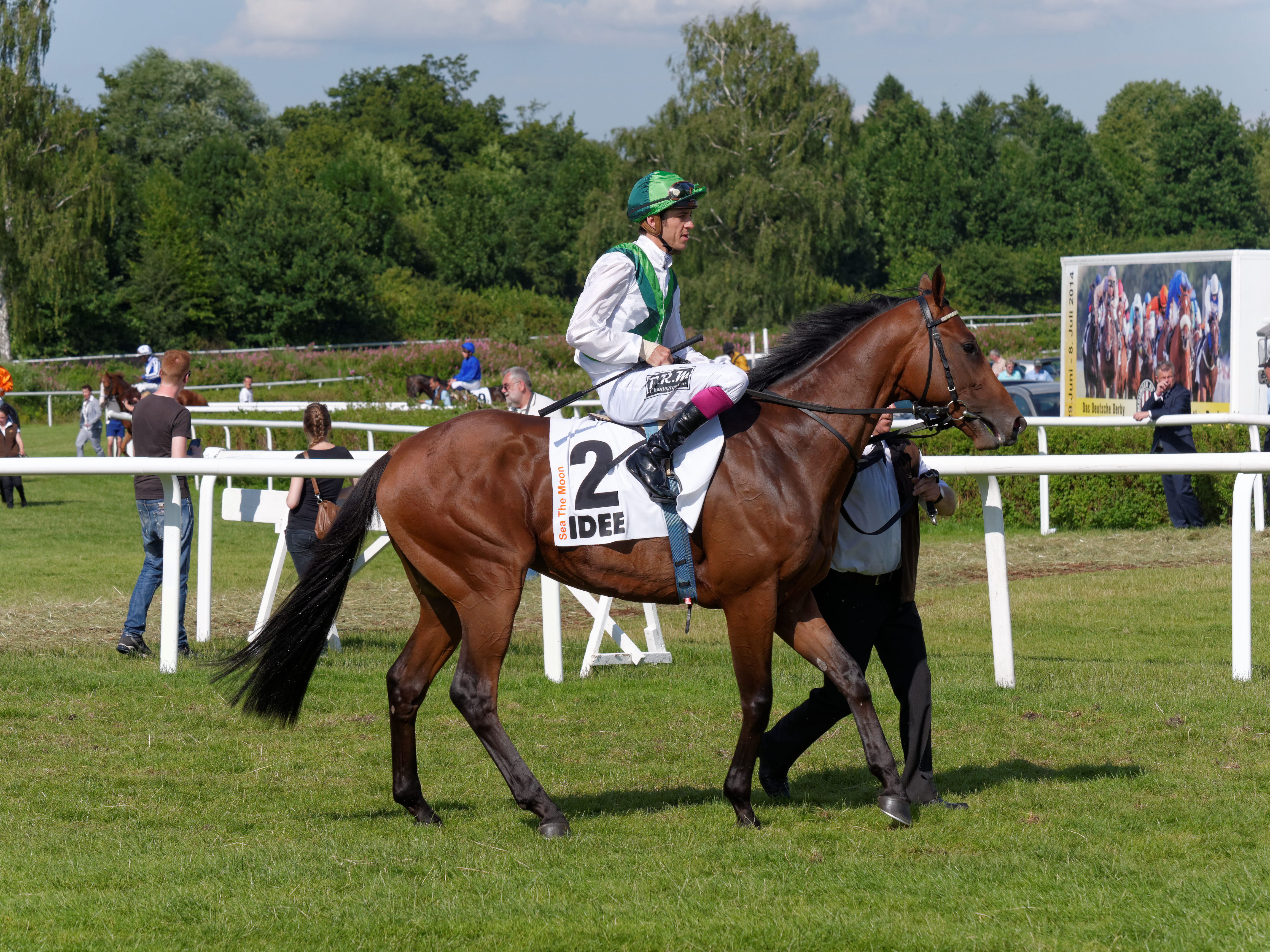 The German Derby winner Sea The Moon just before the start